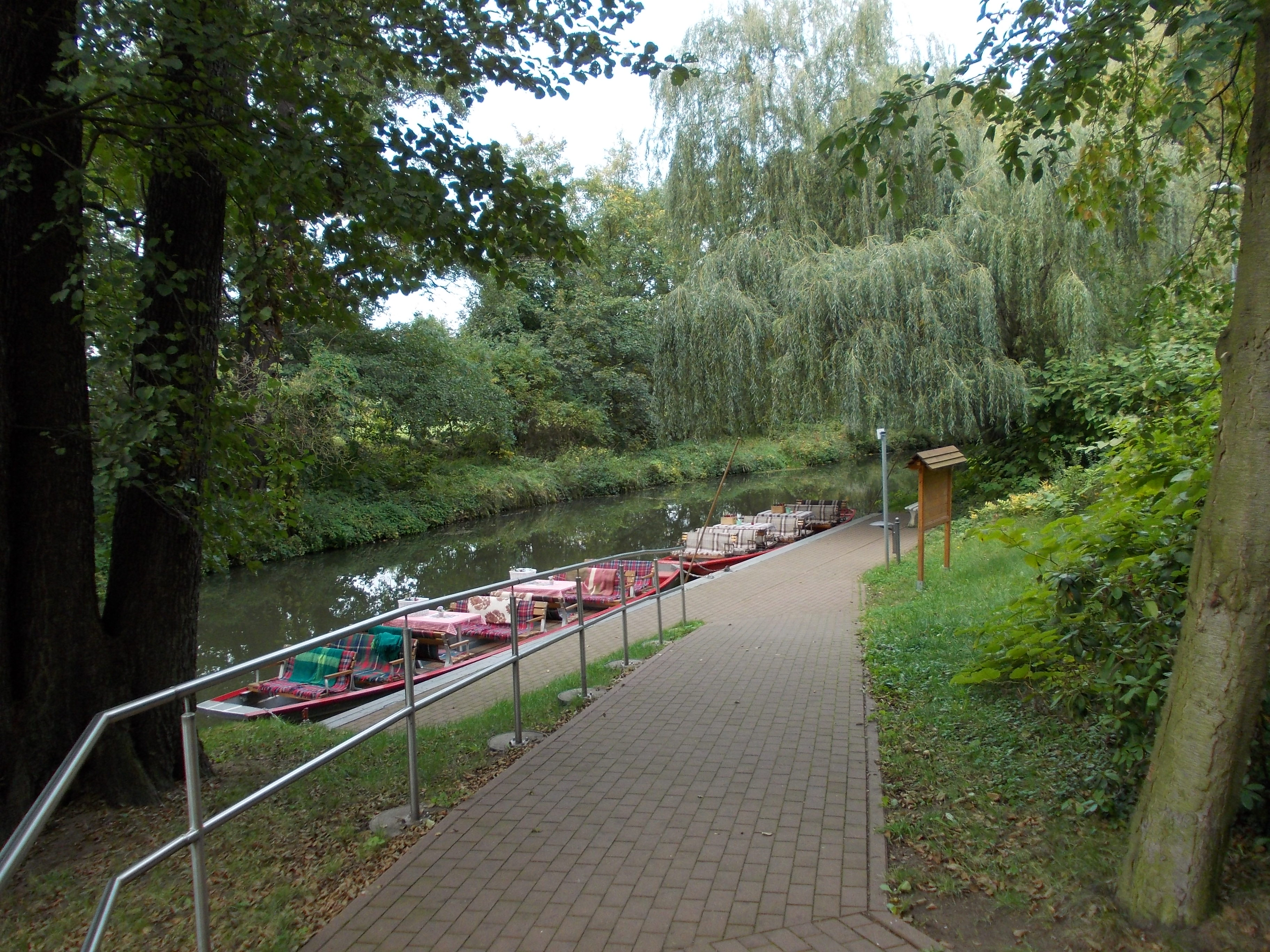 Punt mooring at the "Little Spreewald" on the Kleine Elster river near Wahrenbrück (Uebigau-Wahrenbrück, Elbe-Elster district, Brandenburg)